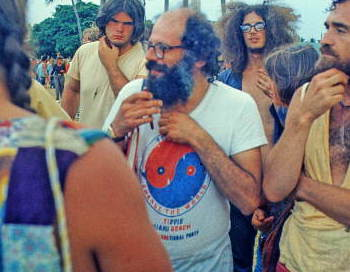 Poet and activist Allen Ginsberg with the protestors - Miami Beach, Florida.